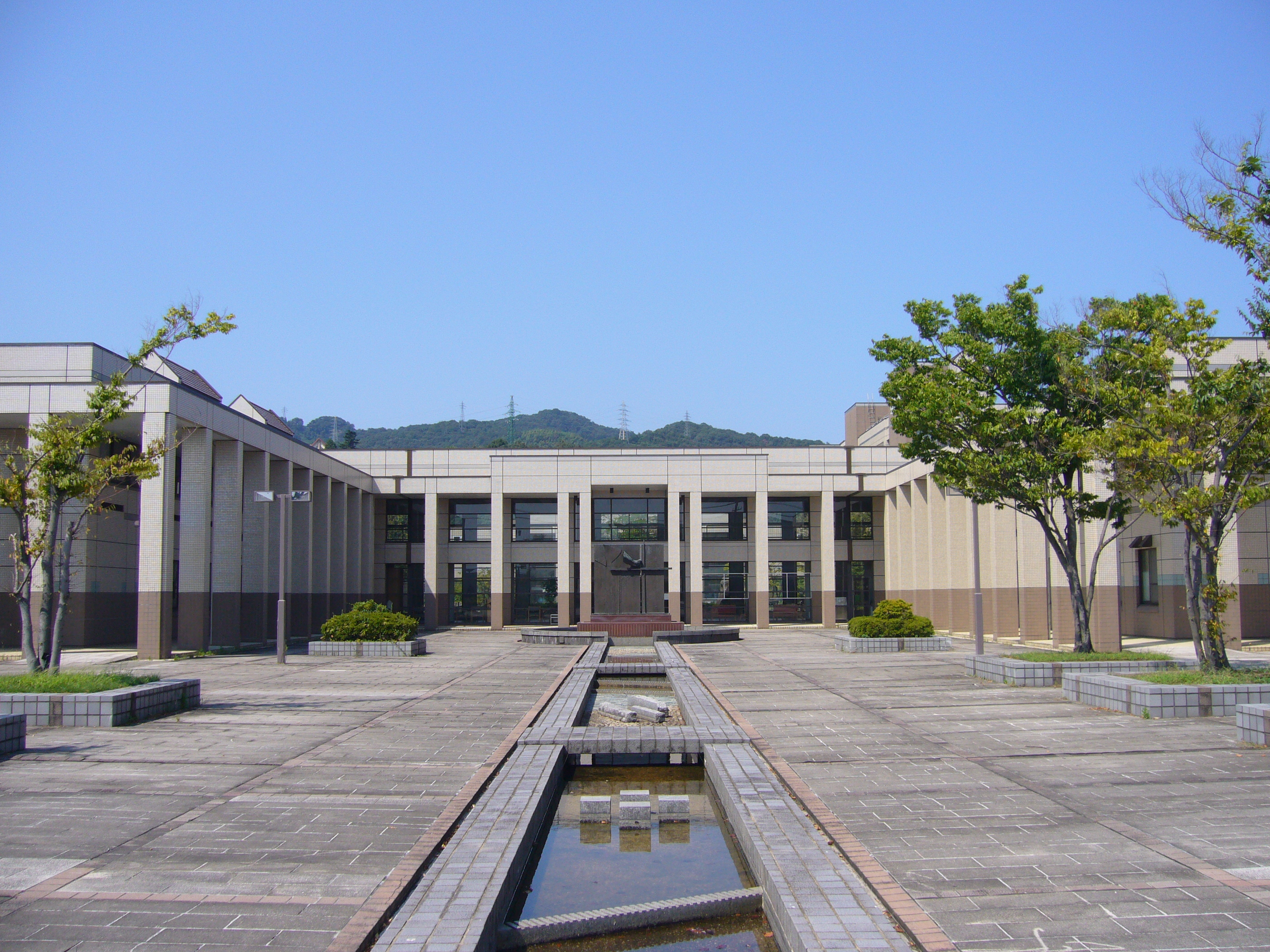 Takaoka Campus of University of Toyama in Toyama, Japan 富山大学 高岡キャンパス（富山県高岡市）